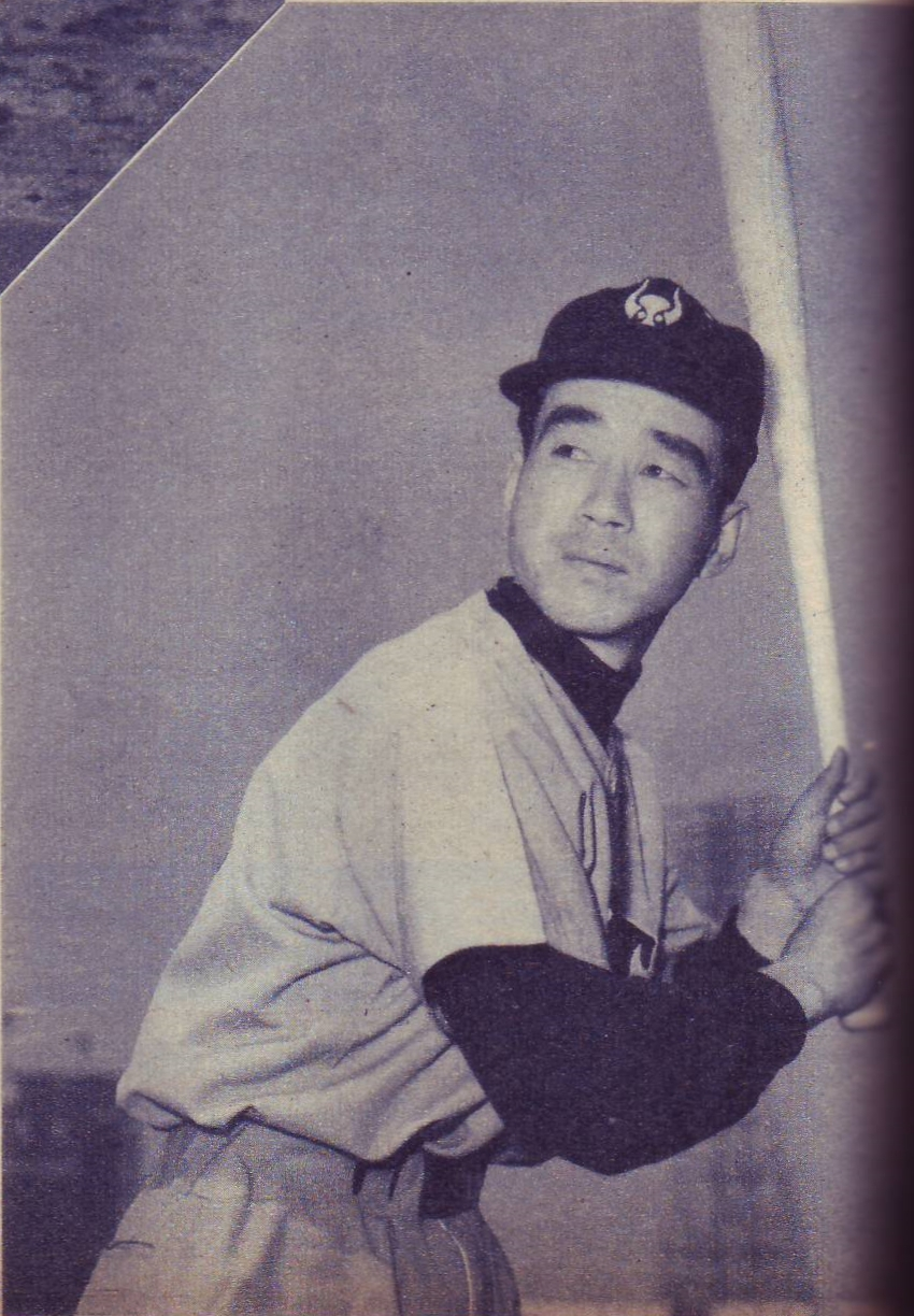 Junzo Sekine (Kintetsu Buffalo). taken in 1959.